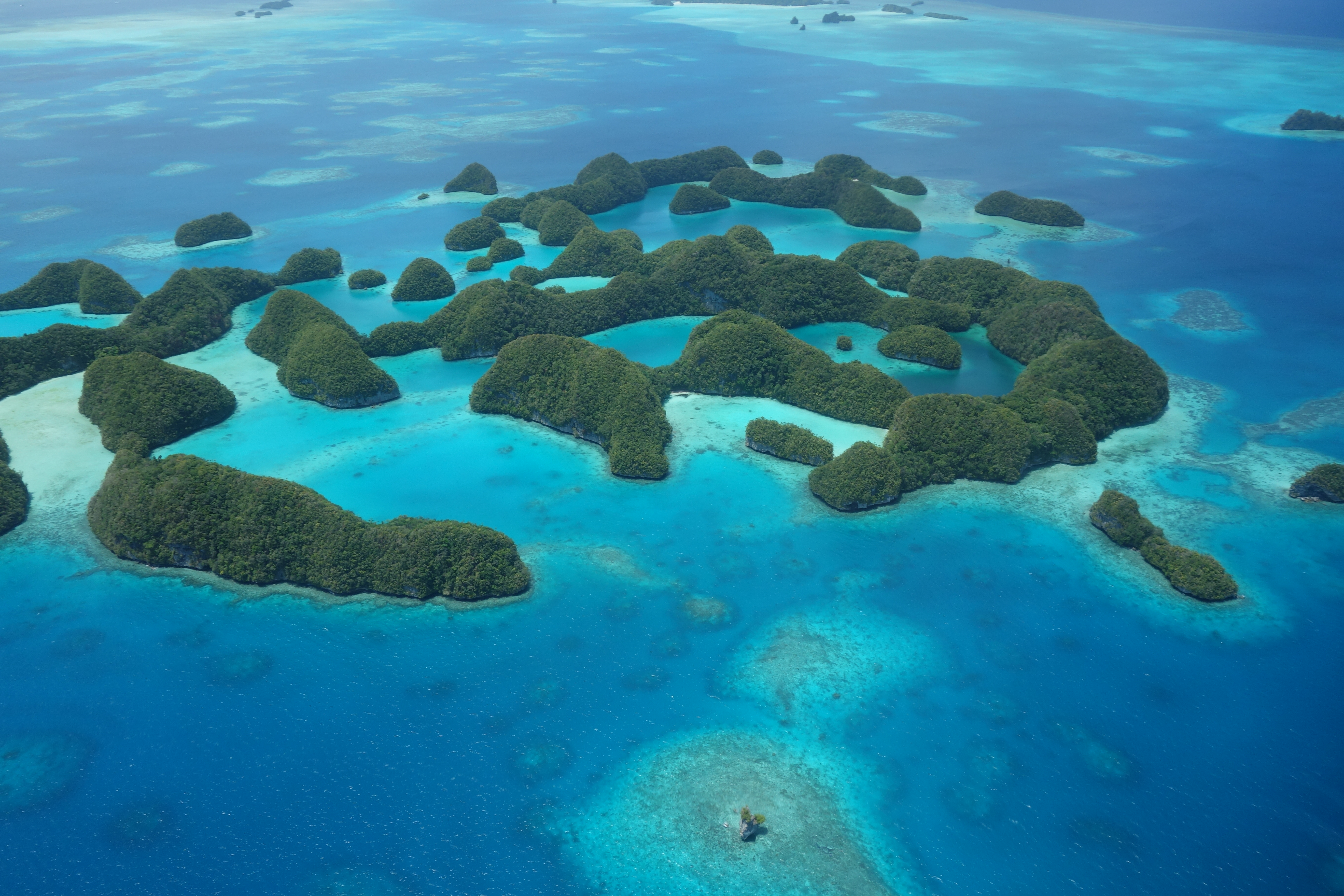 Aerial view of Ngerukewid, Palau facing south. The area includes 37 small raised coral islands that are part of the Ngerukewid Islands Wildlife Preserve, which was established in 1956.